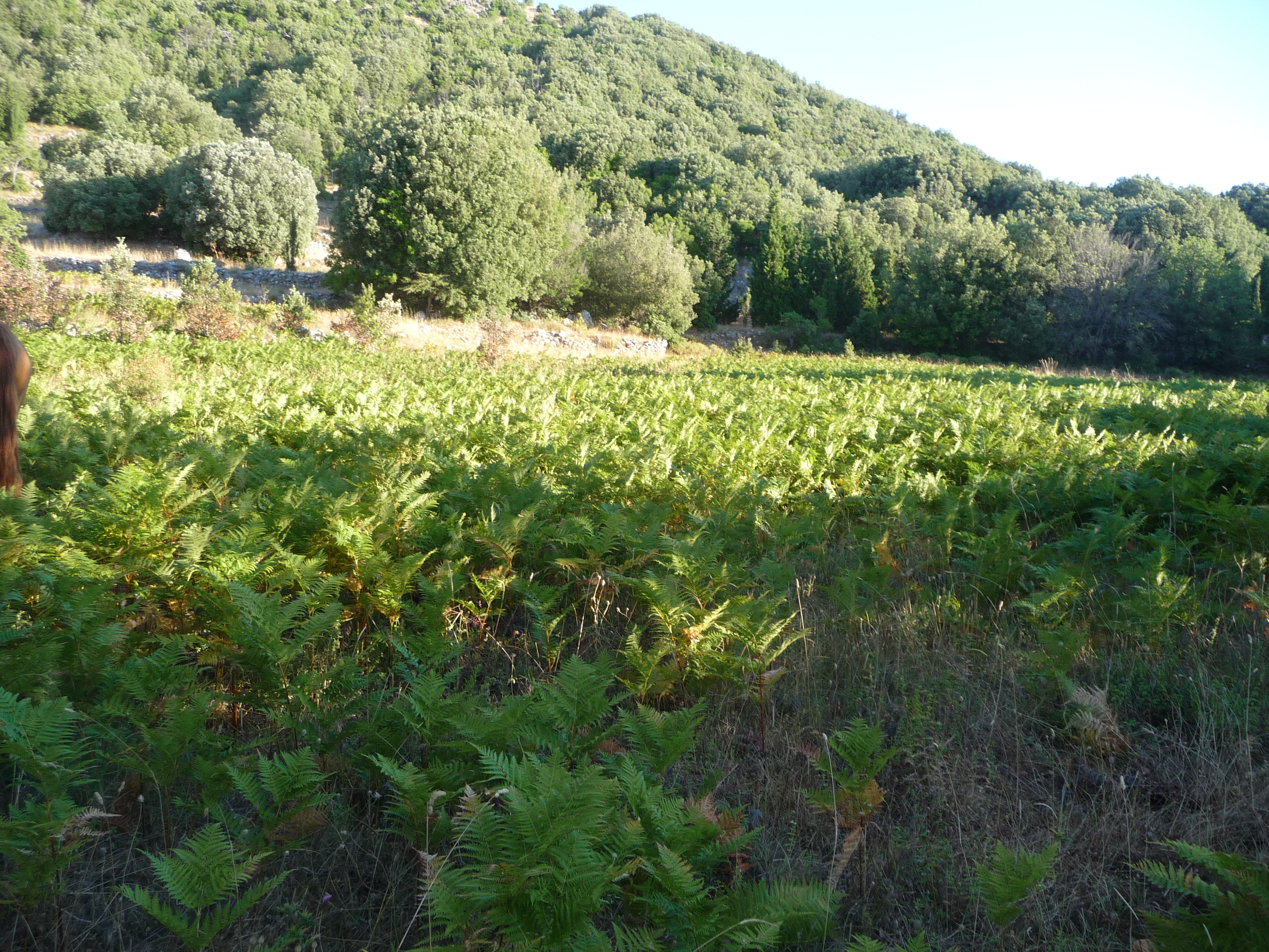 plateau d'ilici